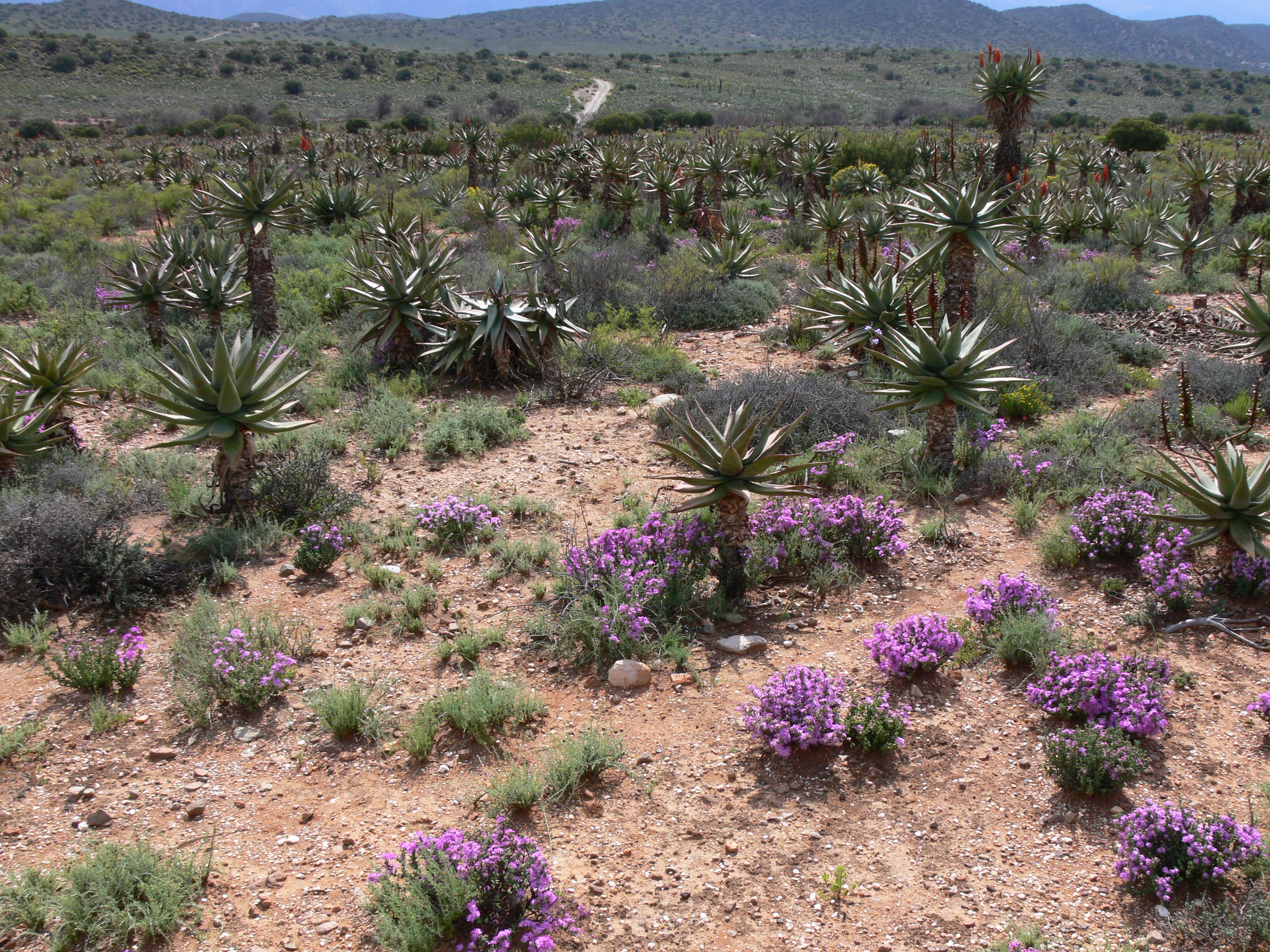 flowering Karoo in Spring, near Willowmore, Eastern Cape, Southafrica